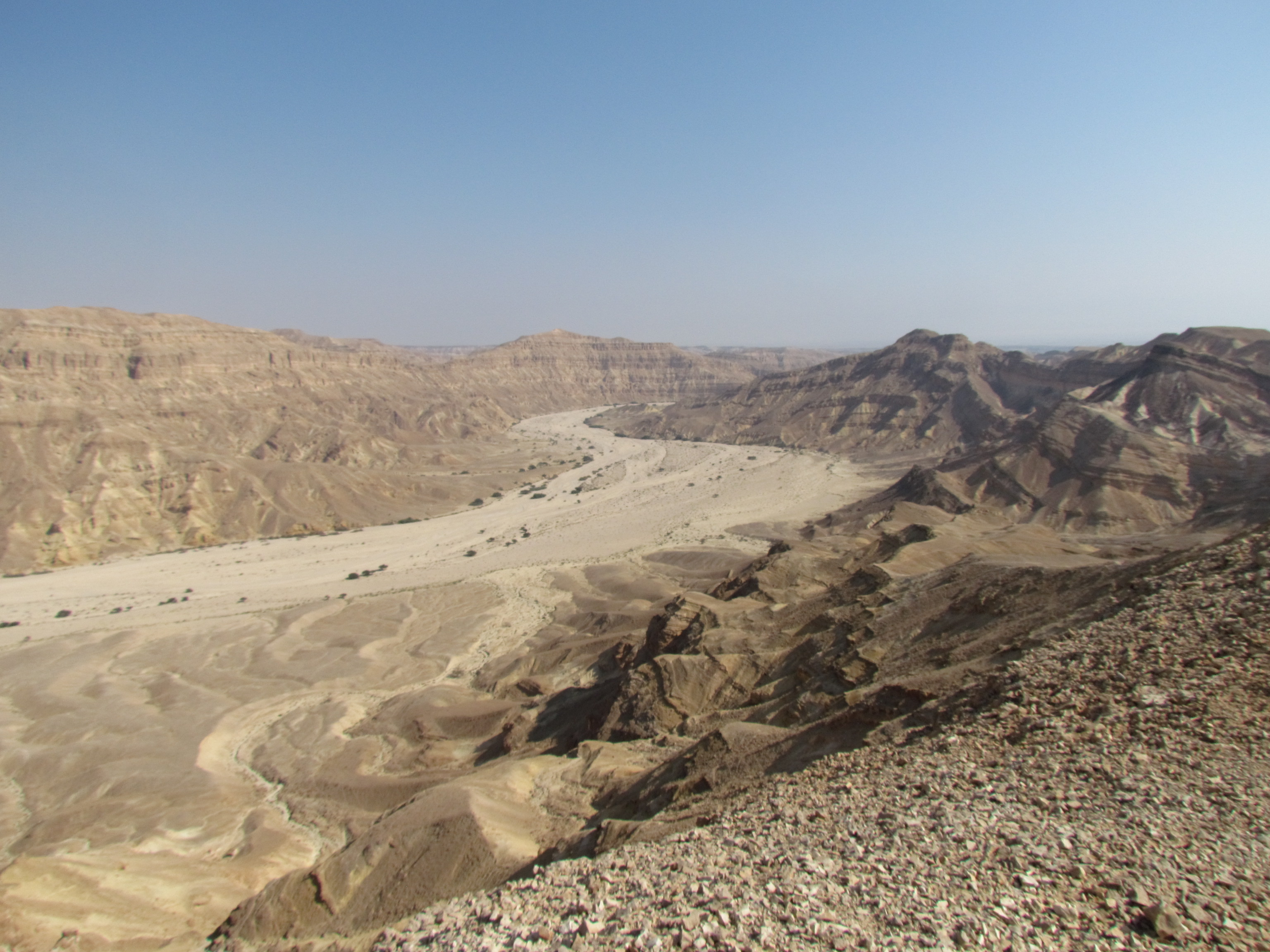 A view on Nahal Neqarot from Mount Yahav